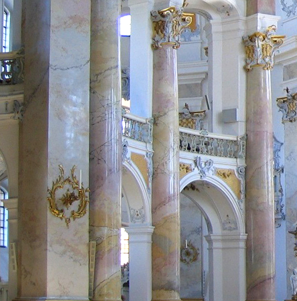 cropped version to show Stuckmarmor